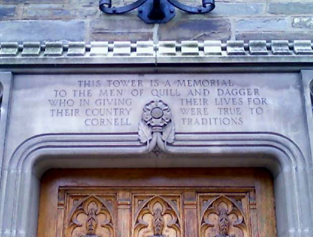 The inscription above the east entrance to Quill and Dagger Tower, part of Lyon Hall and the War Memorial, on Cornell University's West Campus.